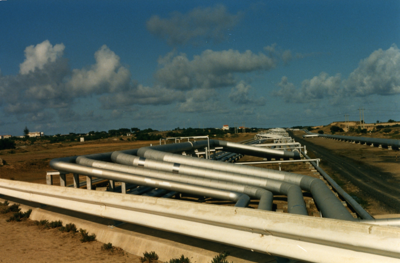 Pipeline near to Sines, in Portugal